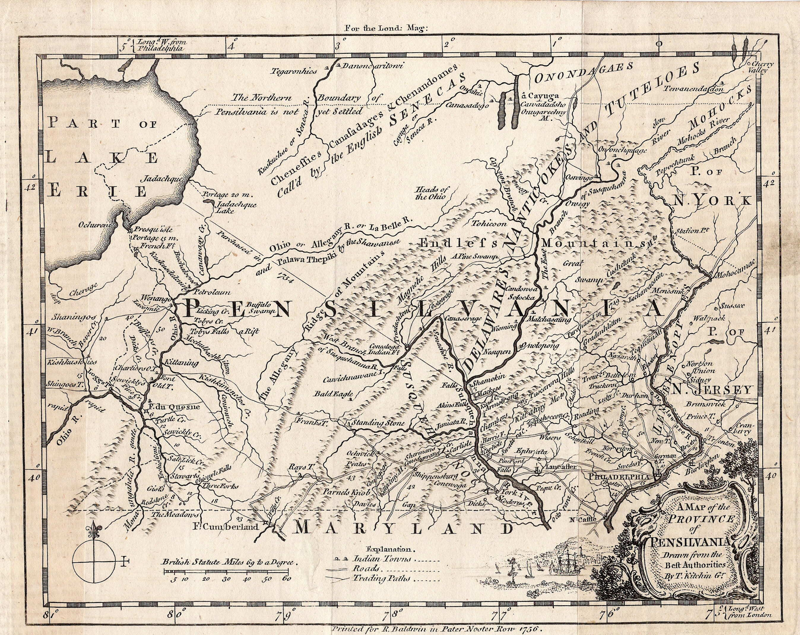 December issue of London Magazine, 1756.